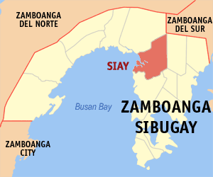 Map of the Zamboanga Sibugay showing the location of Siay